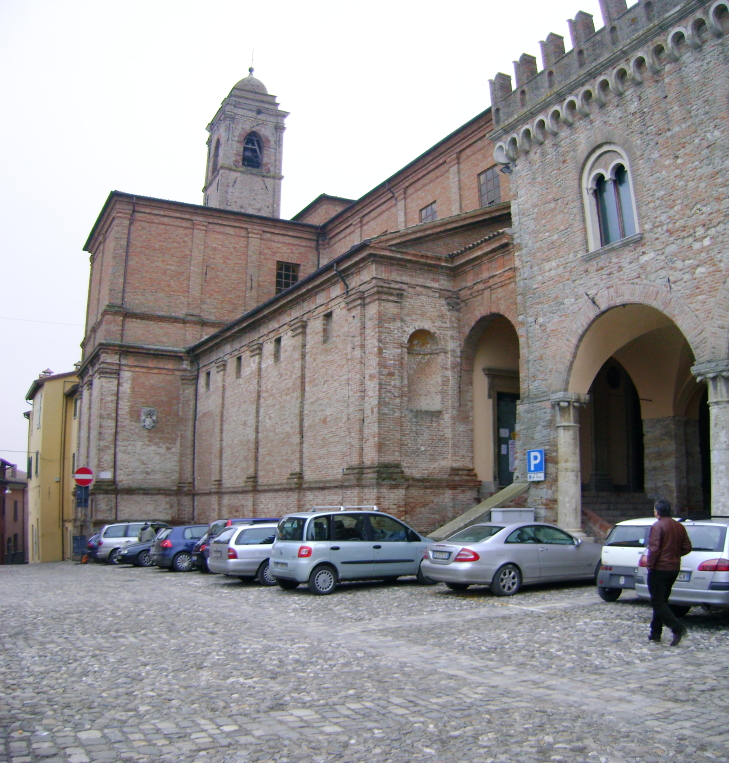 The cathedral of Santa Caterina, Bertinoro, province of Forlì-Cesena, Emilia-Romagna